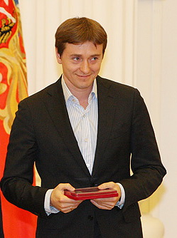 People's Artists of the Russian Federation, Sergei Bezrukov